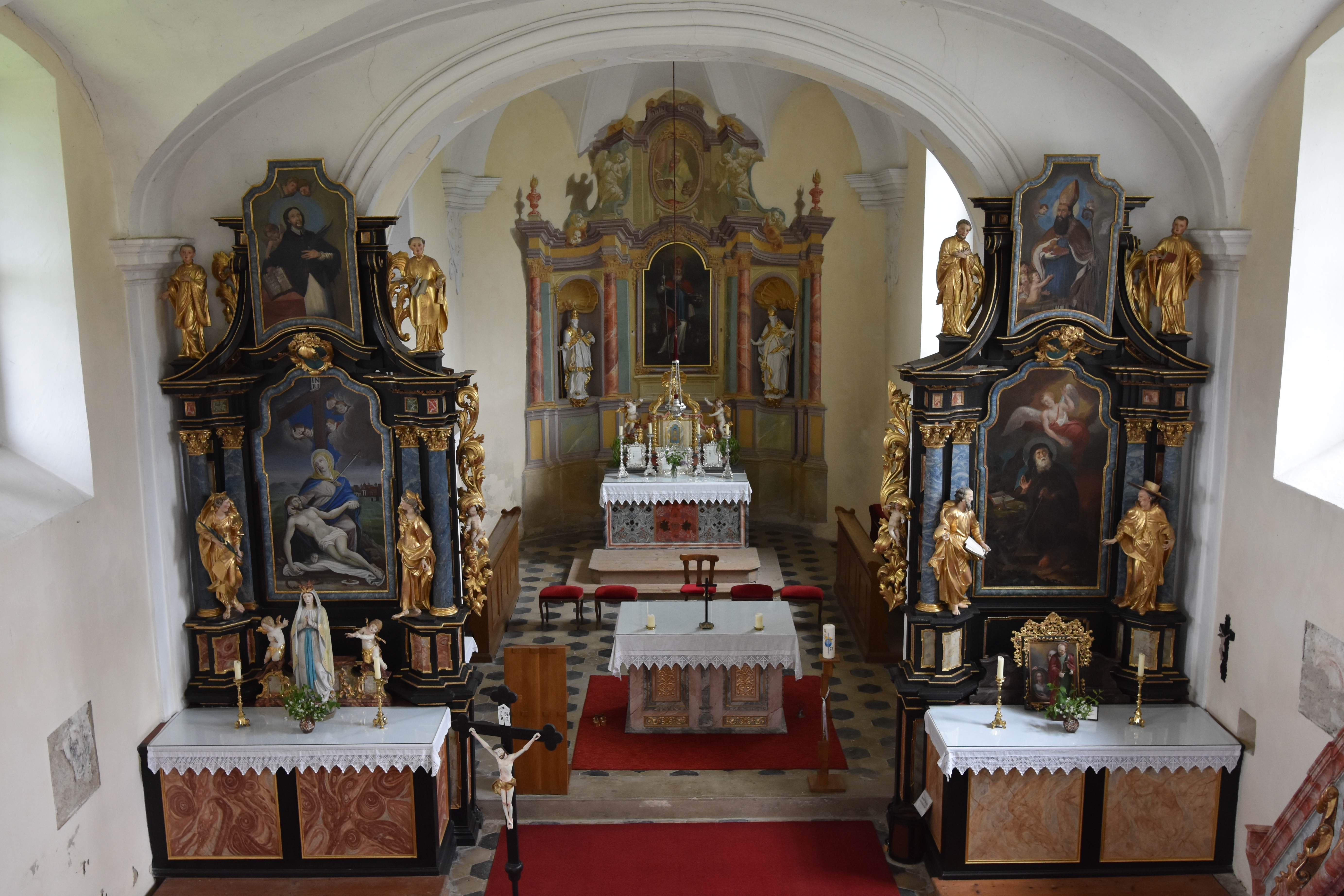 Church Sankt Ulrich, Deutschlandsberg - Interior